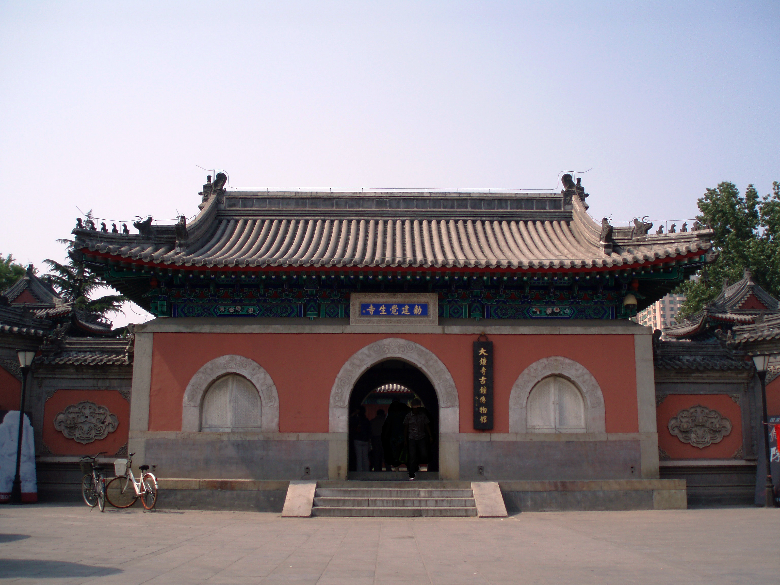 Entrance of the Big Bell Temple, Beijing. 中文（香港）: 北京覺生寺山門。